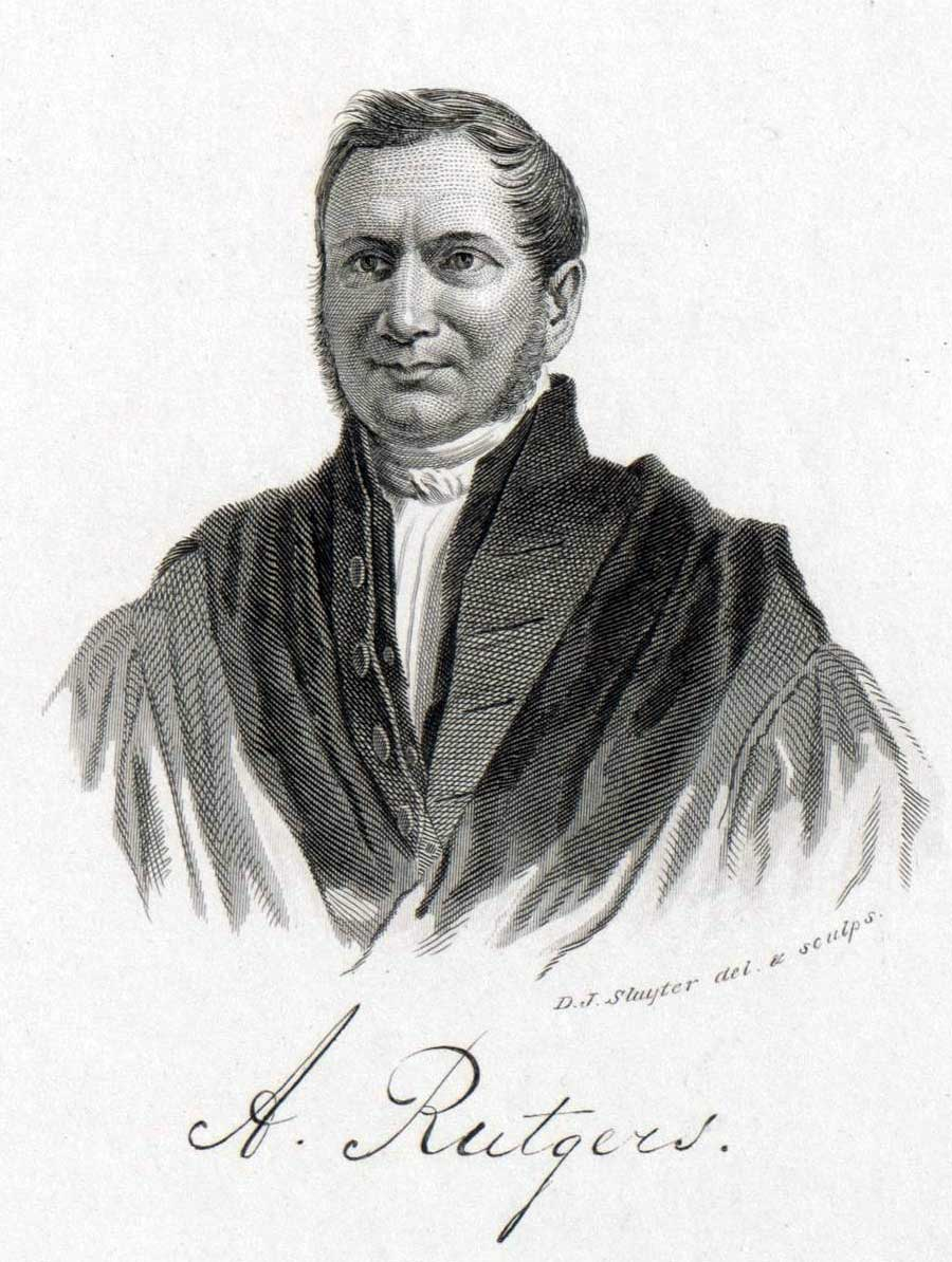 Antonie Rutgers (1805-1884), professor at Leiden University (theology/Sanskrit)